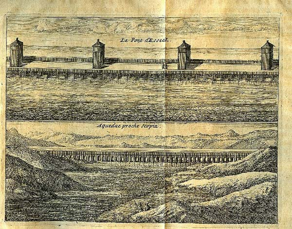 The Bridge of Eszék (1674)